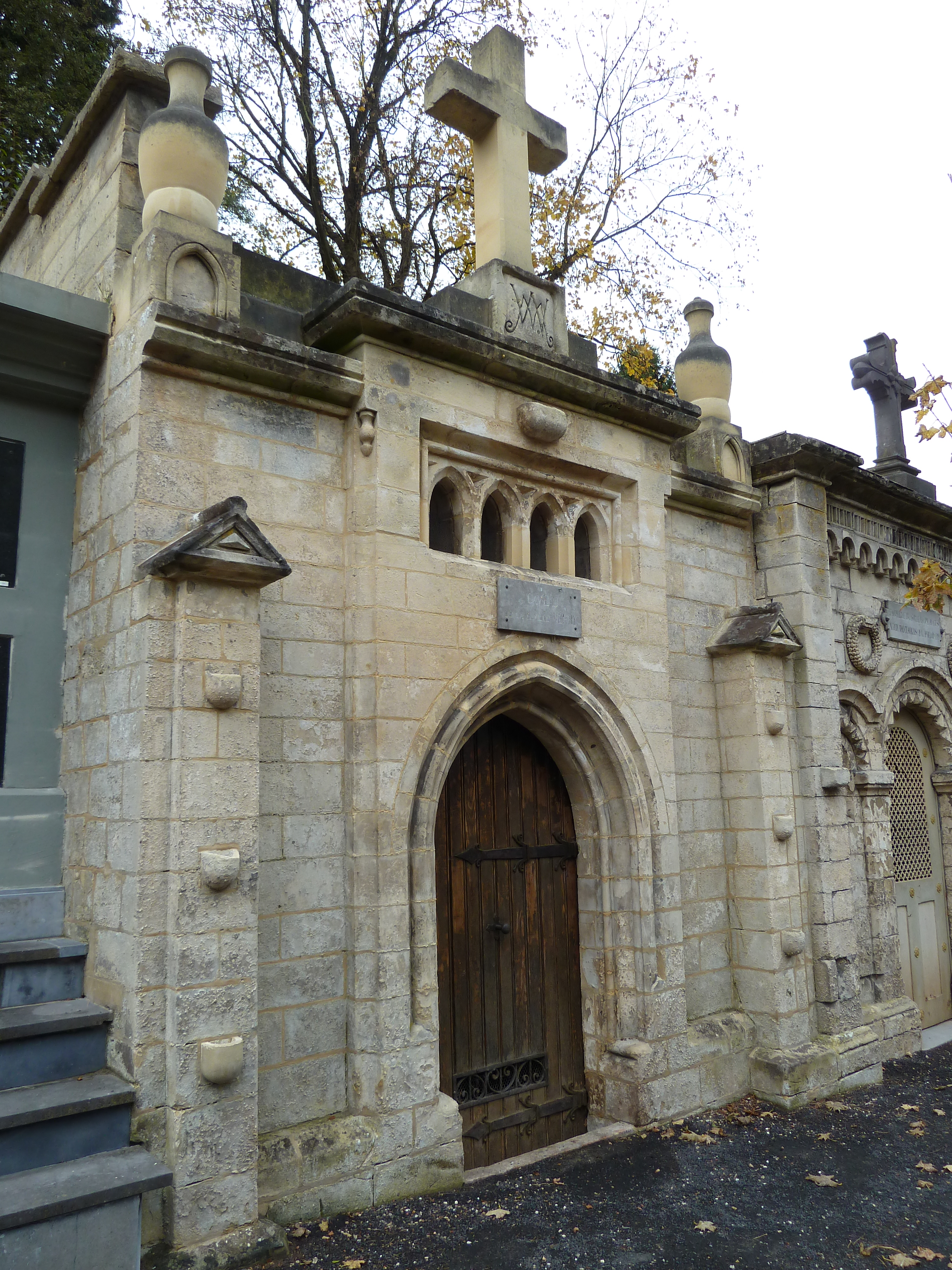 Grafkelder Wehry, Valkenburg, Limburg, the Netherlands